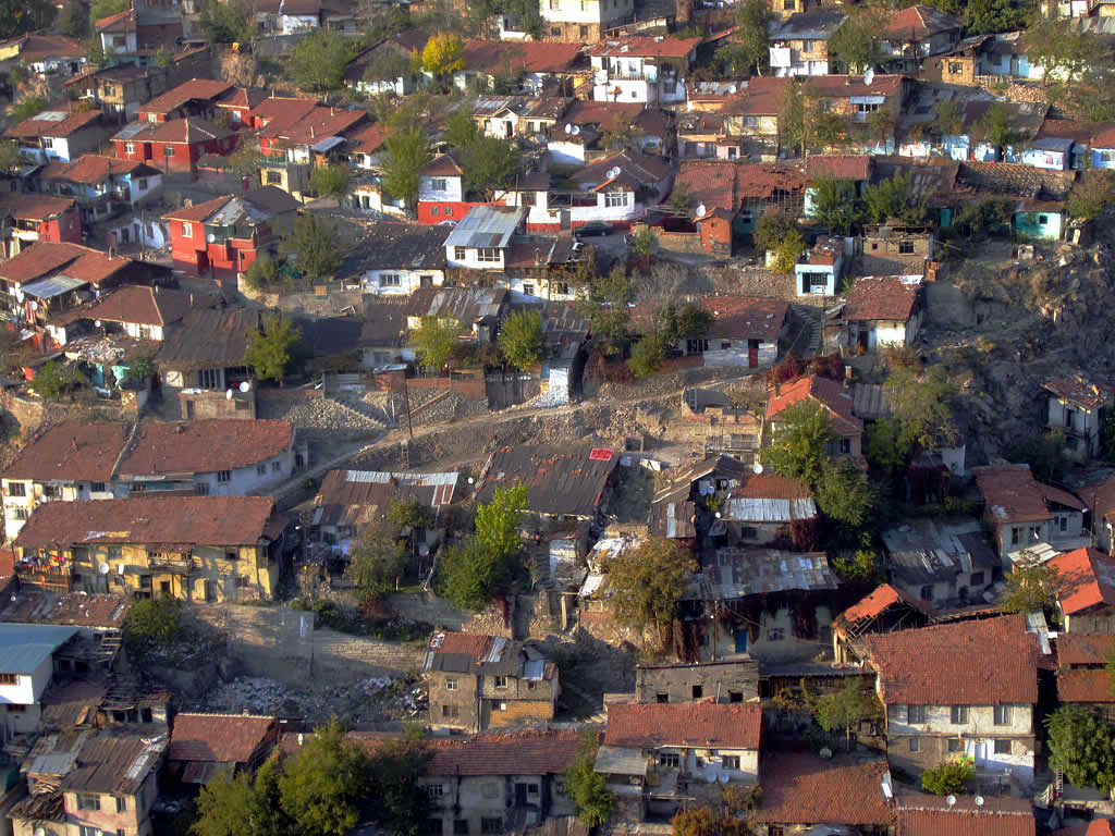 Old Ankara as seen from the walls of the Citadel.